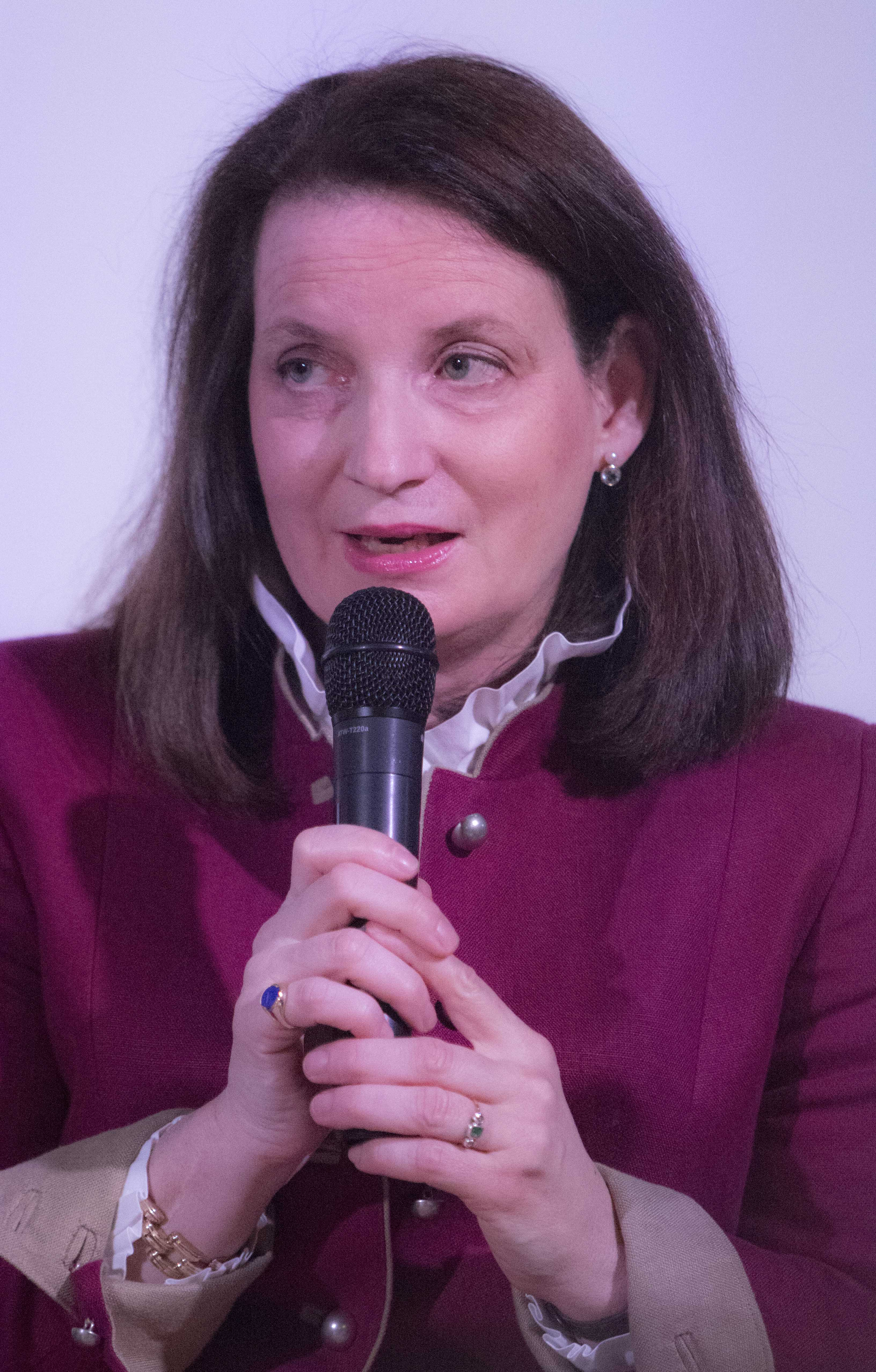 Elisabeth Ellison-Kramer, the Austrian Ambassador to Hungary in March 2017. She took her office on 6 February 2017.